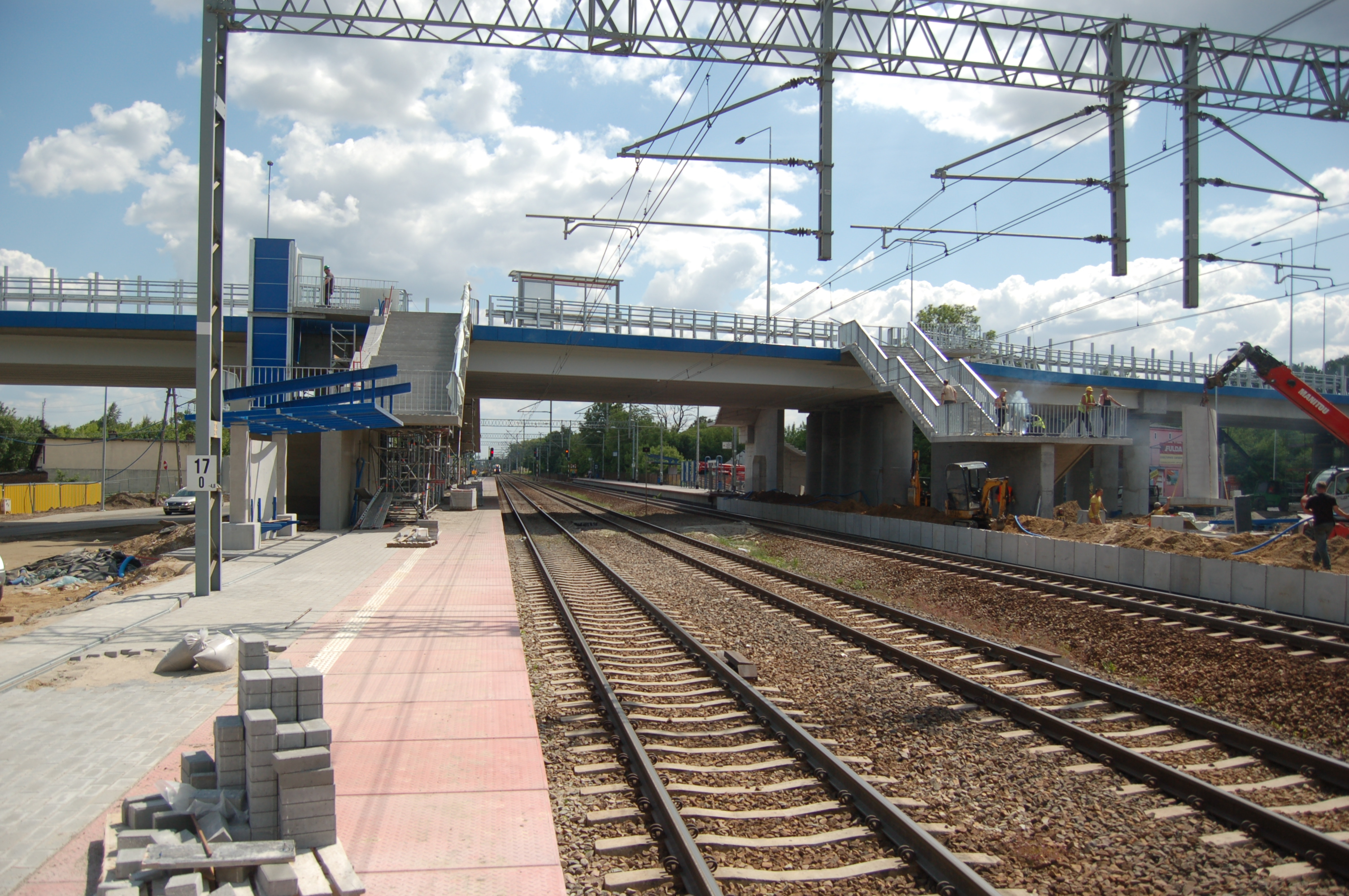 Construction works at Warszawa Pludy